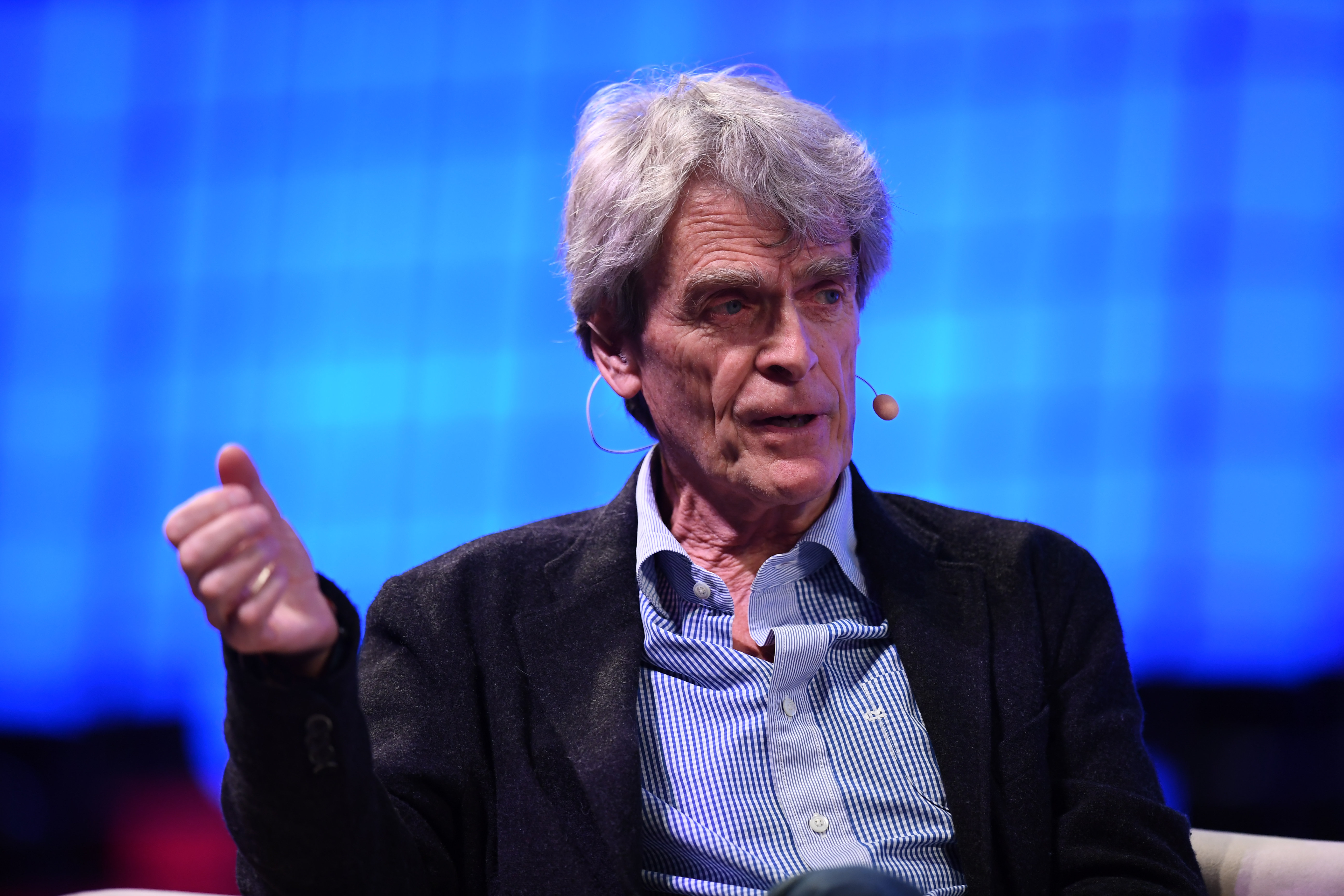 7 November 2017; John Hegarty, Co-Founder & Creative Director BBH & Whalar, on Centre Stage during the opening day of Web Summit 2017 at Altice Arena in Lisbon. Photo by Stephen McCarthy/Web Summit via Sportsfile